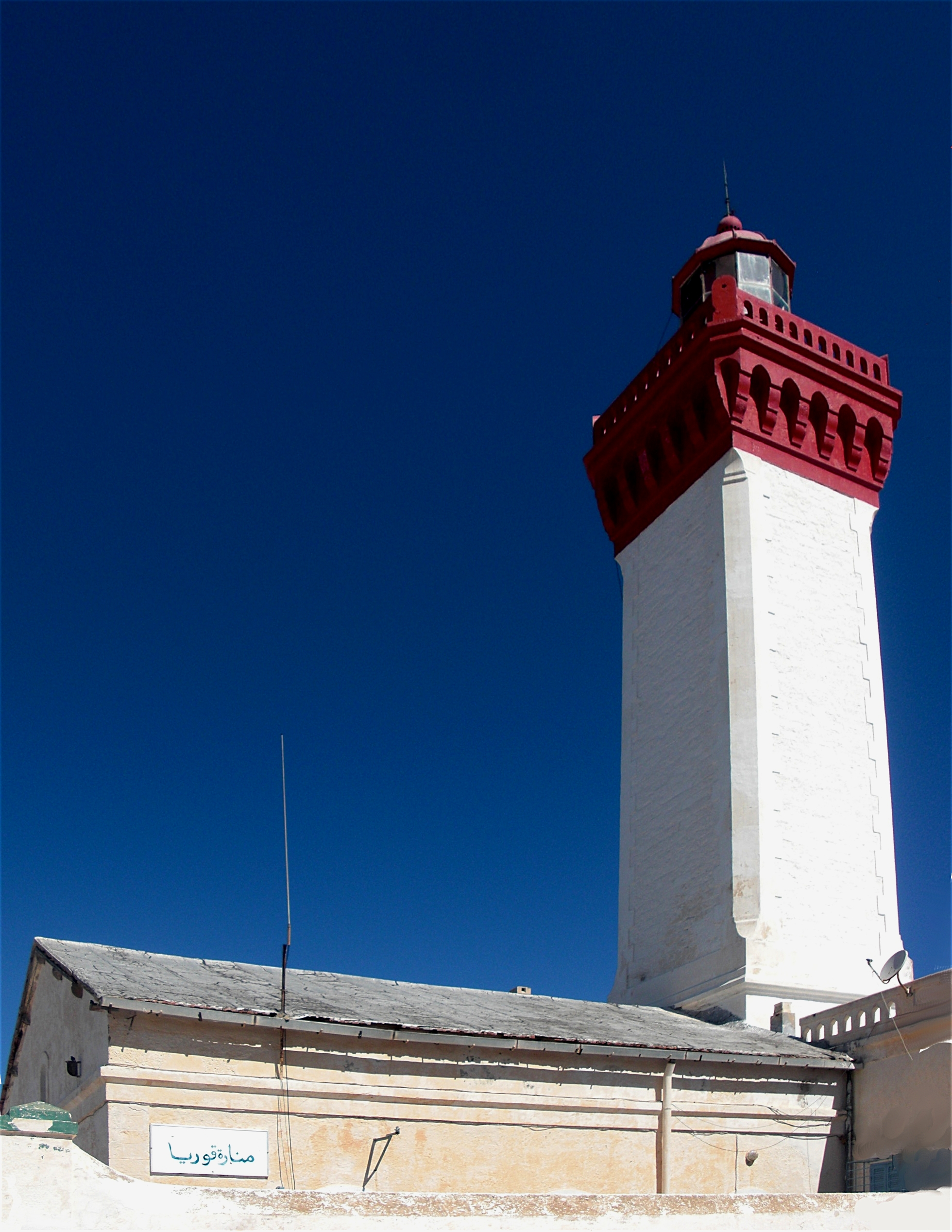 Lighthouse in the Kuriat island in Tunisia